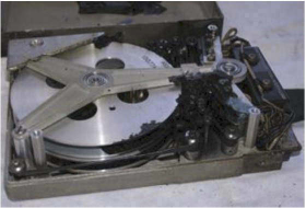 Atlantic Airways Flight 670: Heat-damaged storage unit in FDR.